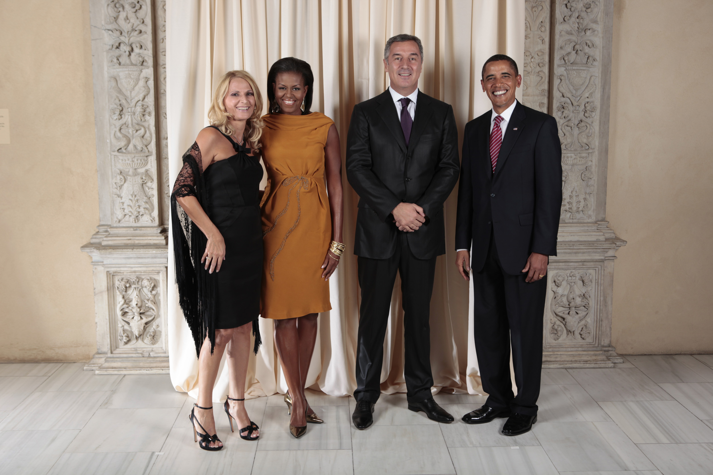 President Barack Obama and First Lady Michelle Obama pose for a photo during a reception at the Metropolitan Museum in New York with Milo Djukanovic, Prime Minister of Montenegro, and his wife, Mrs. Lidija Đukanović.